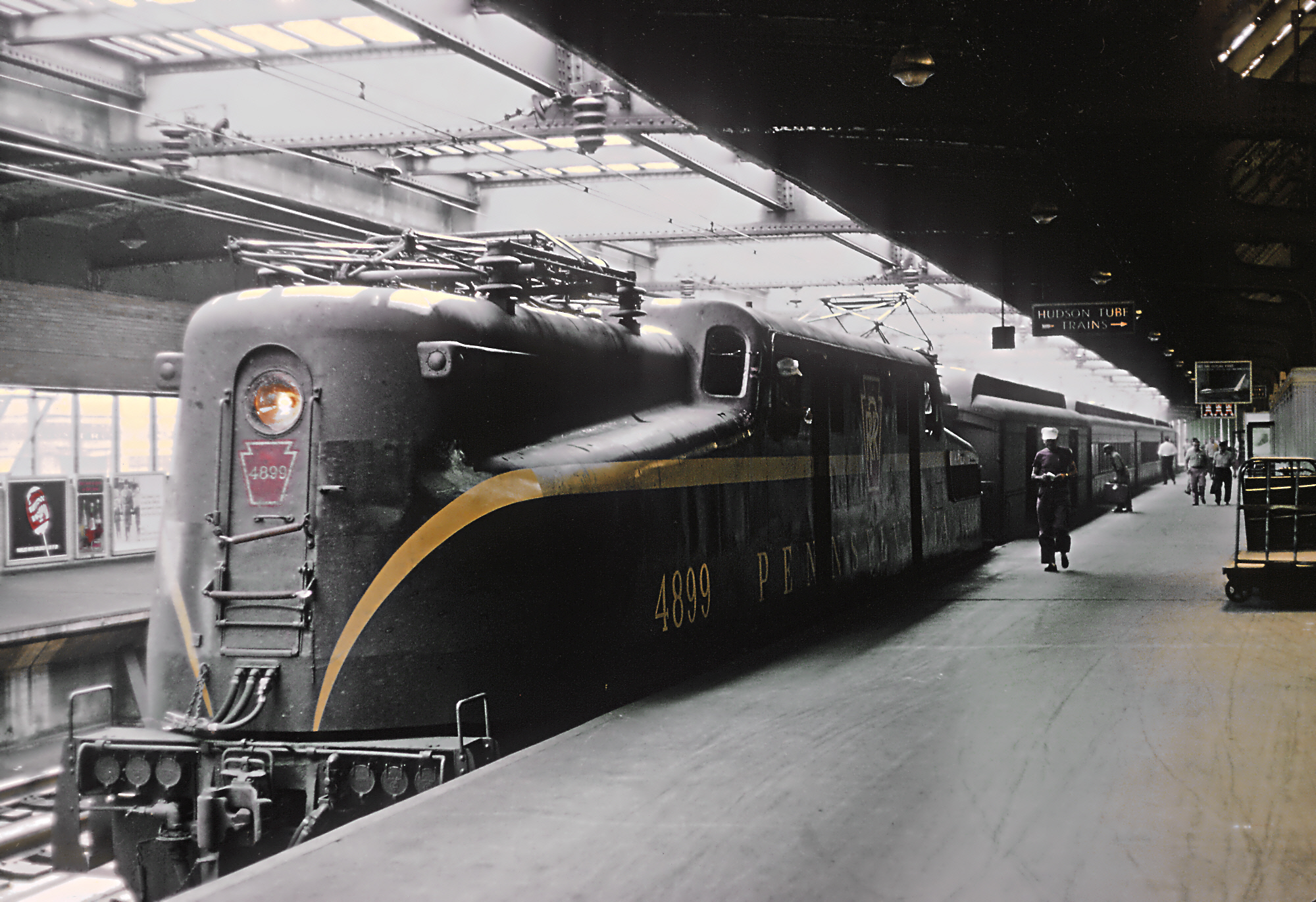 A Roger Puta Photograph